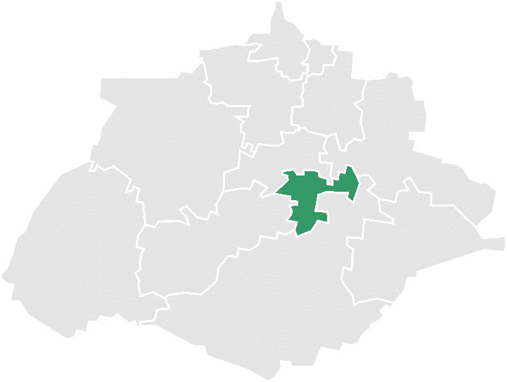 Map of the Municipalty of San Francisco de los Romo in the State of Aguascalientes, México.